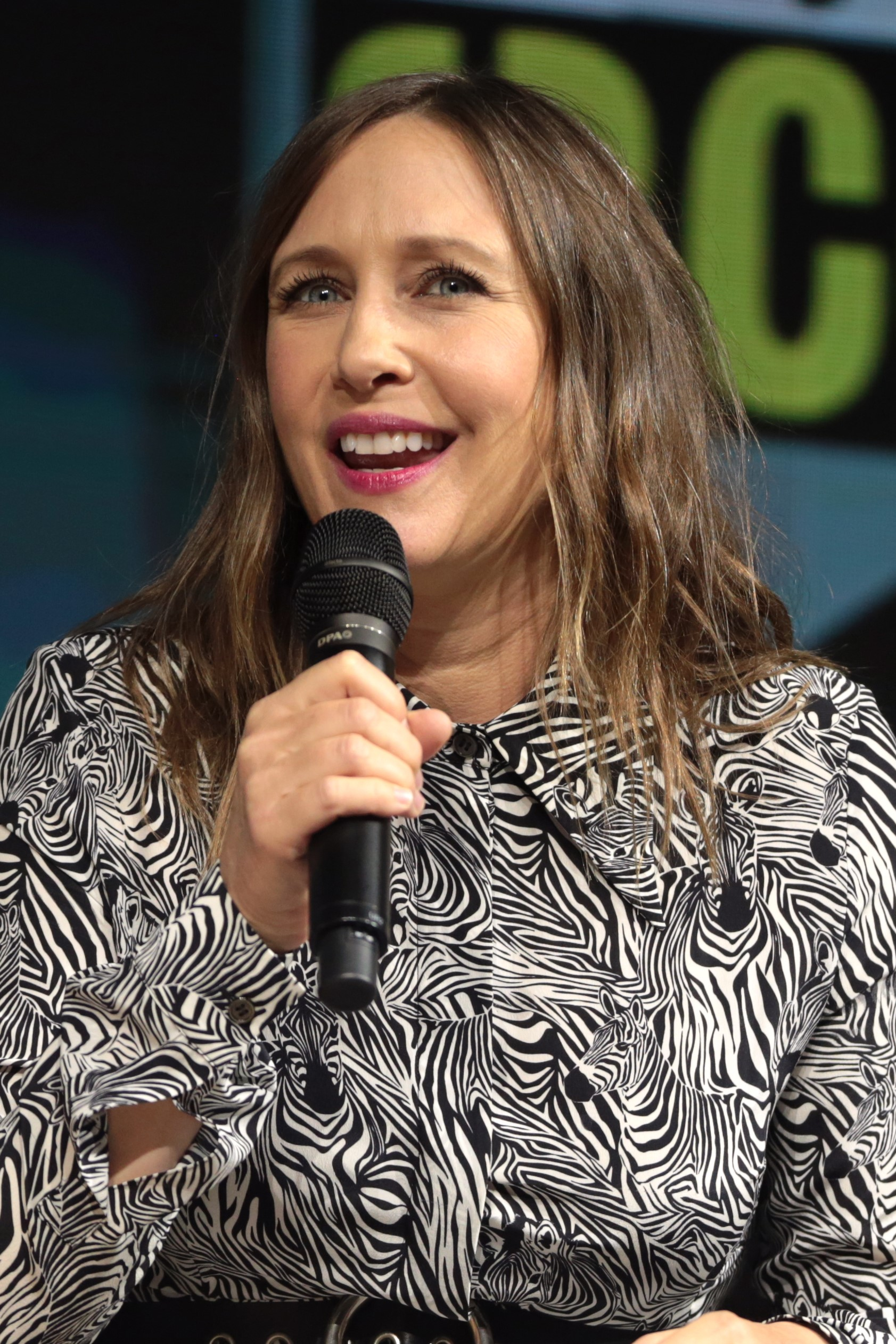 Vera Farmiga speaking at the 2018 San Diego Comic Con International, for "Godzilla: King of the Monsters", at the San Diego Convention Center in San Diego, California.